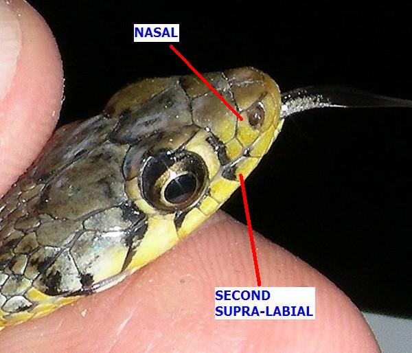 Buff-striped keelback, Amphiesma stolata, Family Colubridinae, Serpentes First identification characteristic for Buff-striped Keelback snake. The nasal shield does not touch the second supralabial (upperlip shield). Image taken on 17 Jul 06 in Binnaguri, Duars, northern West Bengal, India by AshLin. Self-work. CC2.5-Self work, attribution required. AshLin 12:06, 23 July 2006 (UTC)